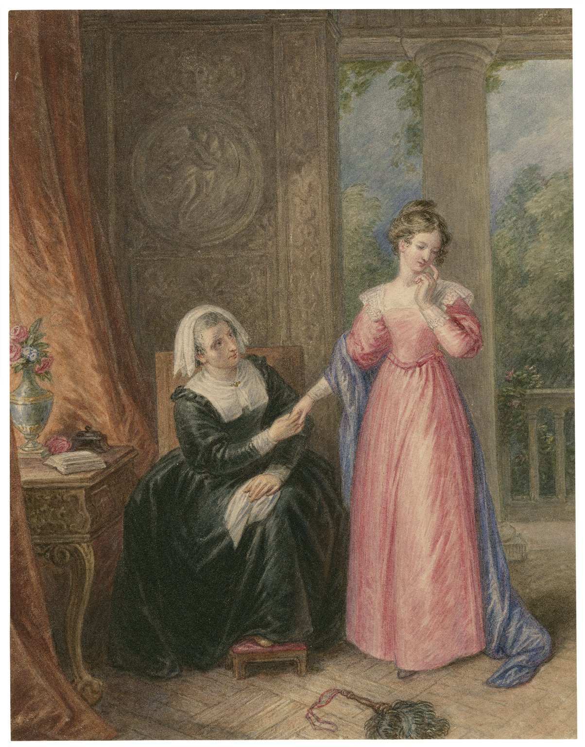 A watercolor of Helena and the Countess, from Act I, Scene iii of All's Well That Ends Well.